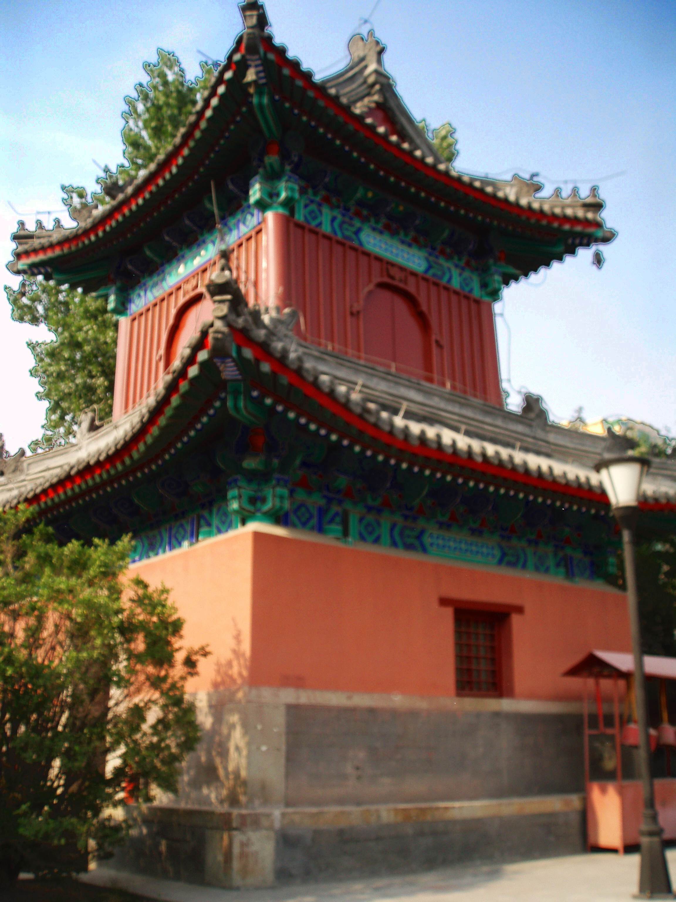 Drum Tower, Big Bell Temple, Beijing. 中文（香港）: 北京大鐘寺內的鼓樓。